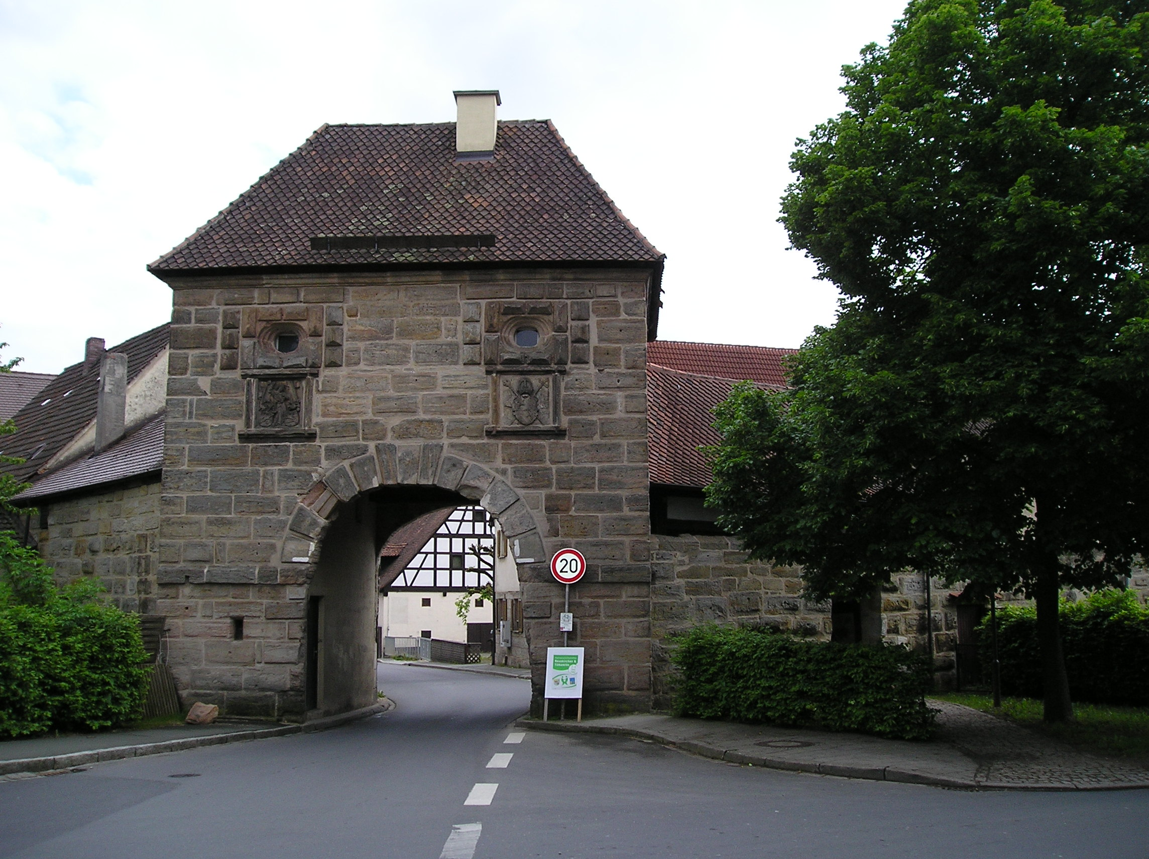 Forchheimer Tor (town gate) of Neunkirchen am Brand (Bavaria, Germany) viewed from outside the old town.